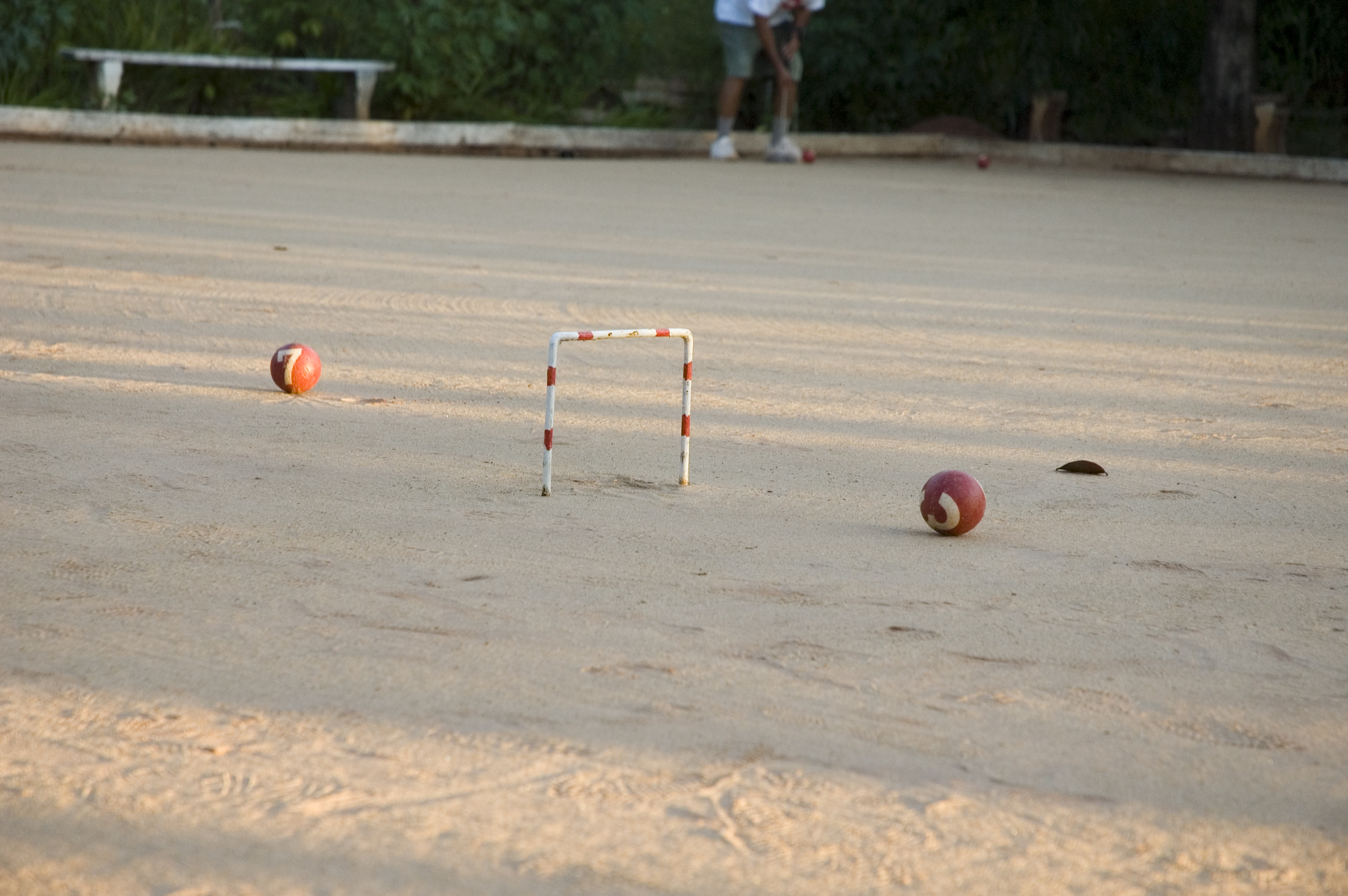 playing field of Gateball